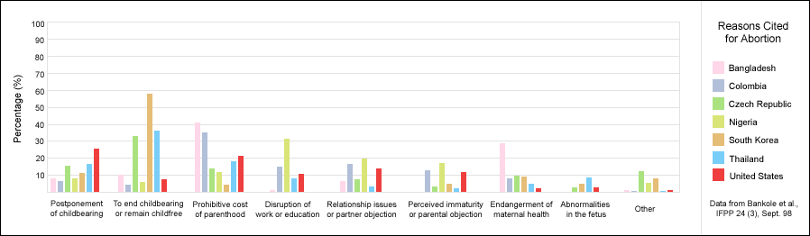 Contents 1 Chart information 2 Summary 3 Chart information 4 Licensing 5 Original upload log Chart information This bar chart presents data from a 1998 AGI study on the motivating factors behind abortion around the world. Countries with the most complete sets of data are presented. Omissions reflect incomplete data. See the original study for more information. Source of data: Bankole, Akinrinola, Singh, Susheela, & Haas, Taylor. (1998). Reasons Why Women Have Induced Abortions: Evidence from 27 Countries. International Family Planning Perspectives, 24 (3), 117-127 & 152. Image created by: Severa